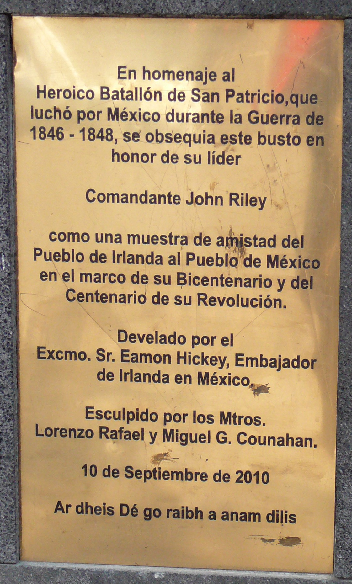 Comandante John Riley's plaque on his pedestal with bronze bust, stating donation of the memorial by the Mexican state to honour his service during the war with America 1846-48, which was unveiled by the Irish Ambassader.in 2010.